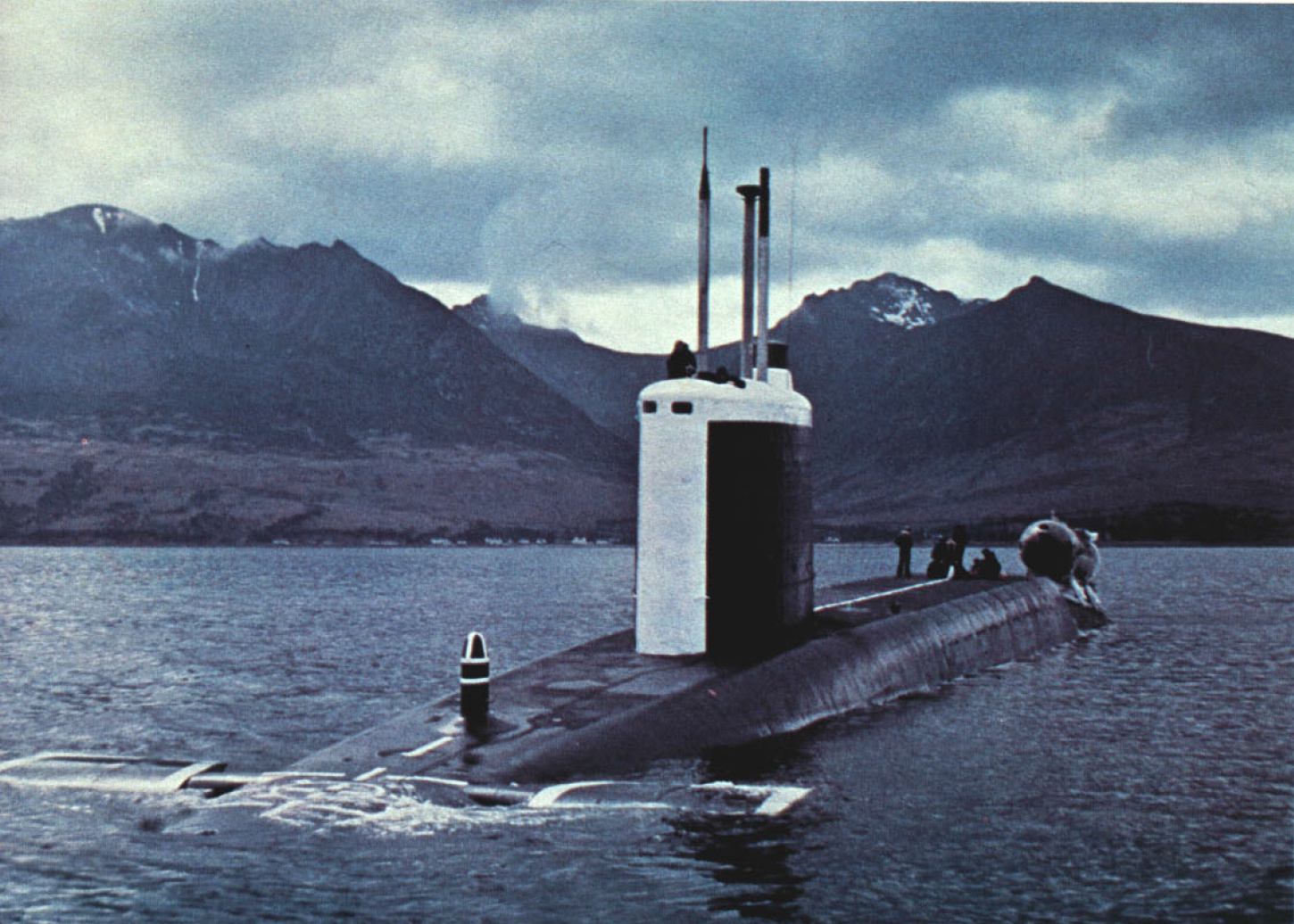 The Royal Navy ballistic missile submarine HMS Repulse (S23) with the U.S. Navy deep sea rescue vehicle Avalon (DSRV-2) in the Firth of Clyde, circa 1979. Repulse "rescued" the crew of HMS Odin (S10) during an exercise.